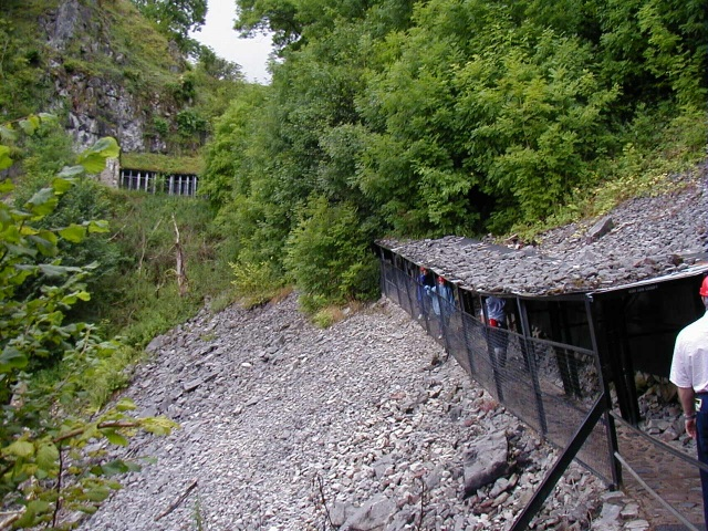 Dan-Yr-Ogof Show Caves - Bone Cave. This is the long covered walk way that leads to Bone Cave. This was the first cave to be discovered in the complex that now extends for miles beneath the welsh mountainside, including three show caves. Known as Bone Cave (or Ogof Yr Esgyrn in Welsh) bones have been discovered from prehistoric times in the cave. Today, the smallest of the three caves that can be visited at the centre, a covered path allows visitors to see the stuffed bears, wolves and other animals that have been placed in the cave for atmosphere!